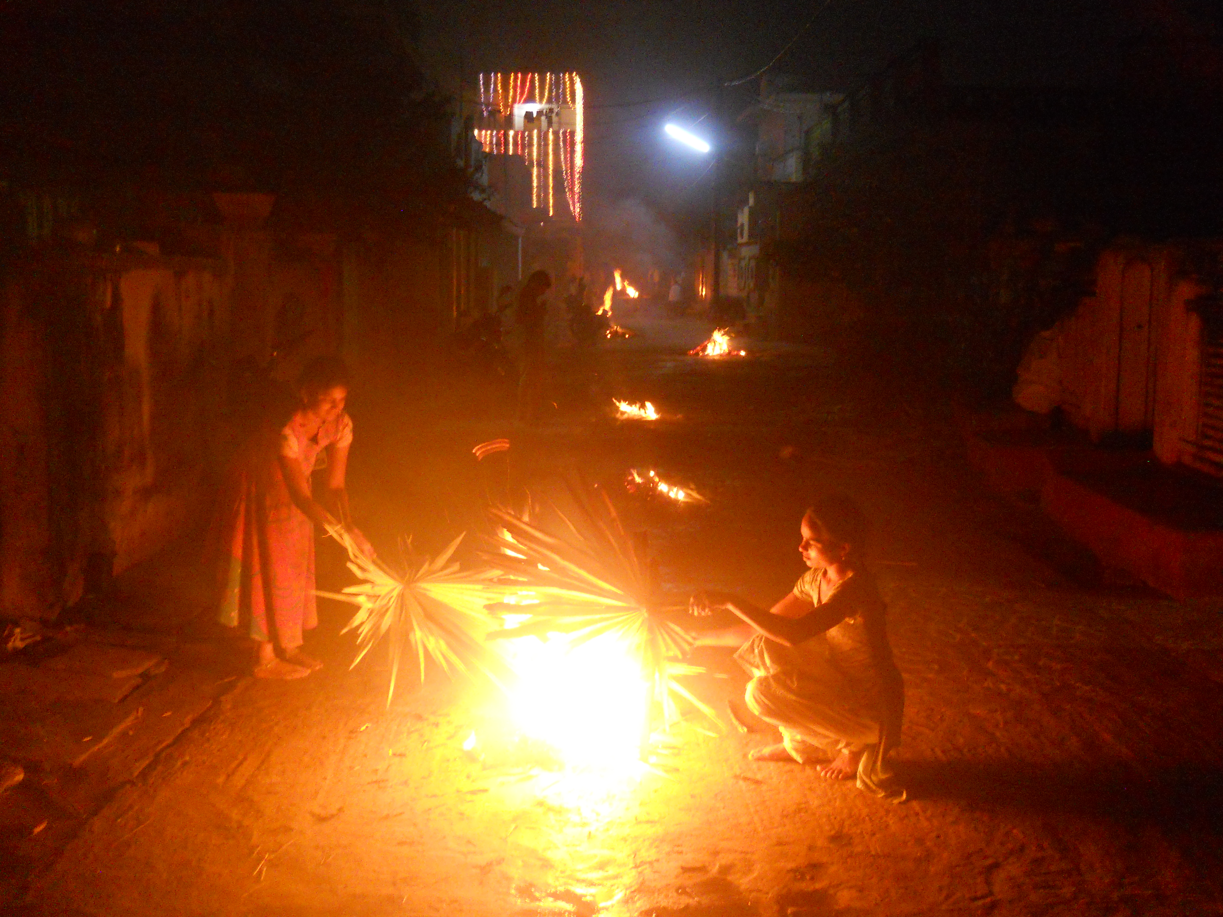 Bhogi Mantalu